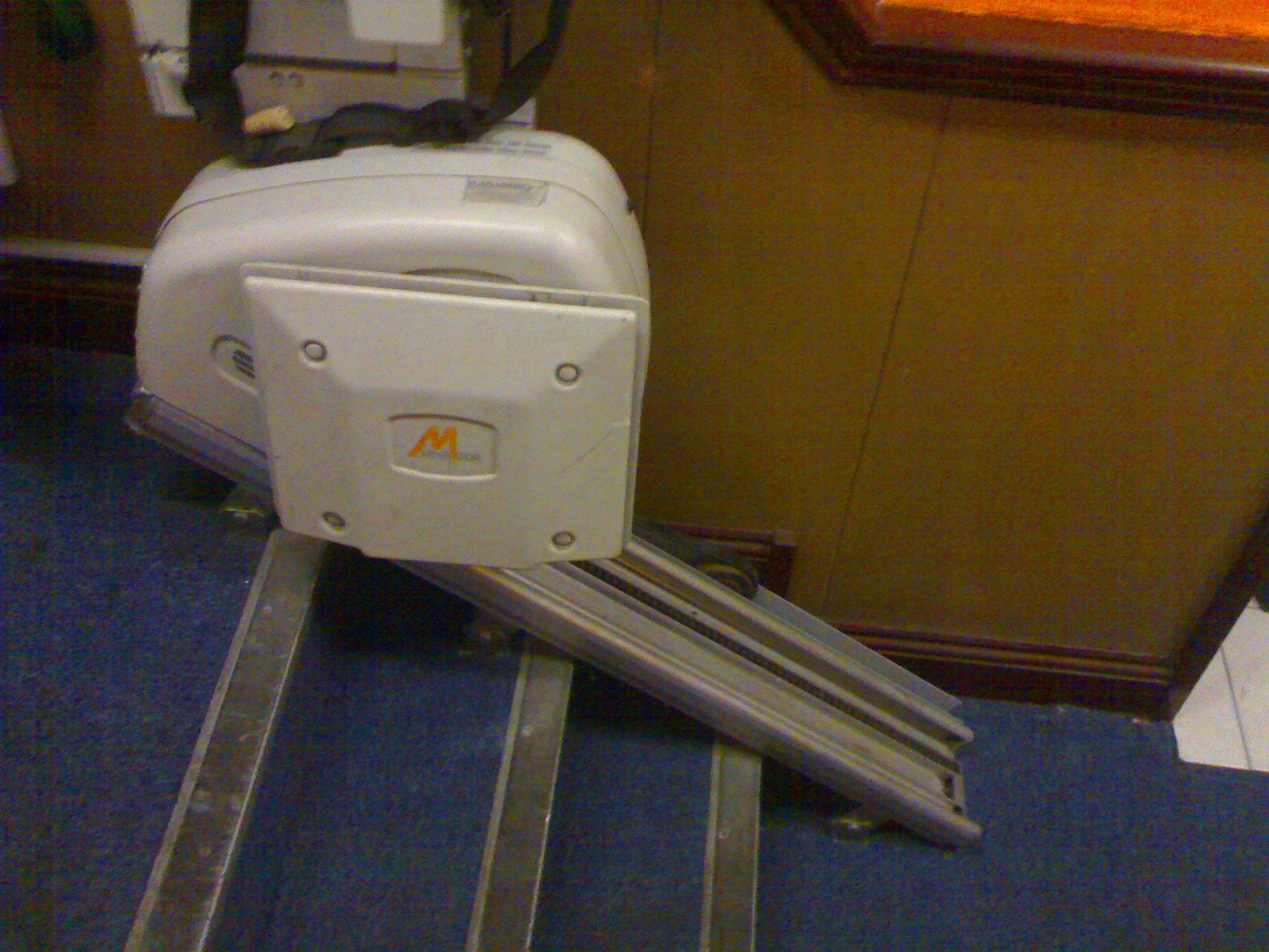 description:A stairlift. photographer: tico24 flickr_url: [1]